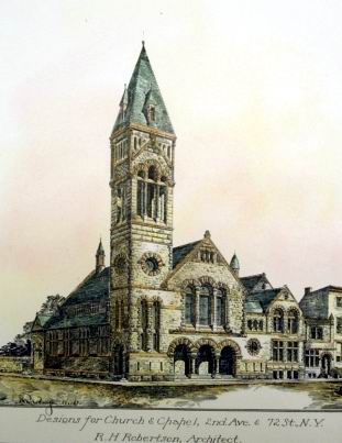 An early photo competition drawing for an unbuilt Manhattan church ) on the Upper East Side, New York City, taken from American Architect and Building News